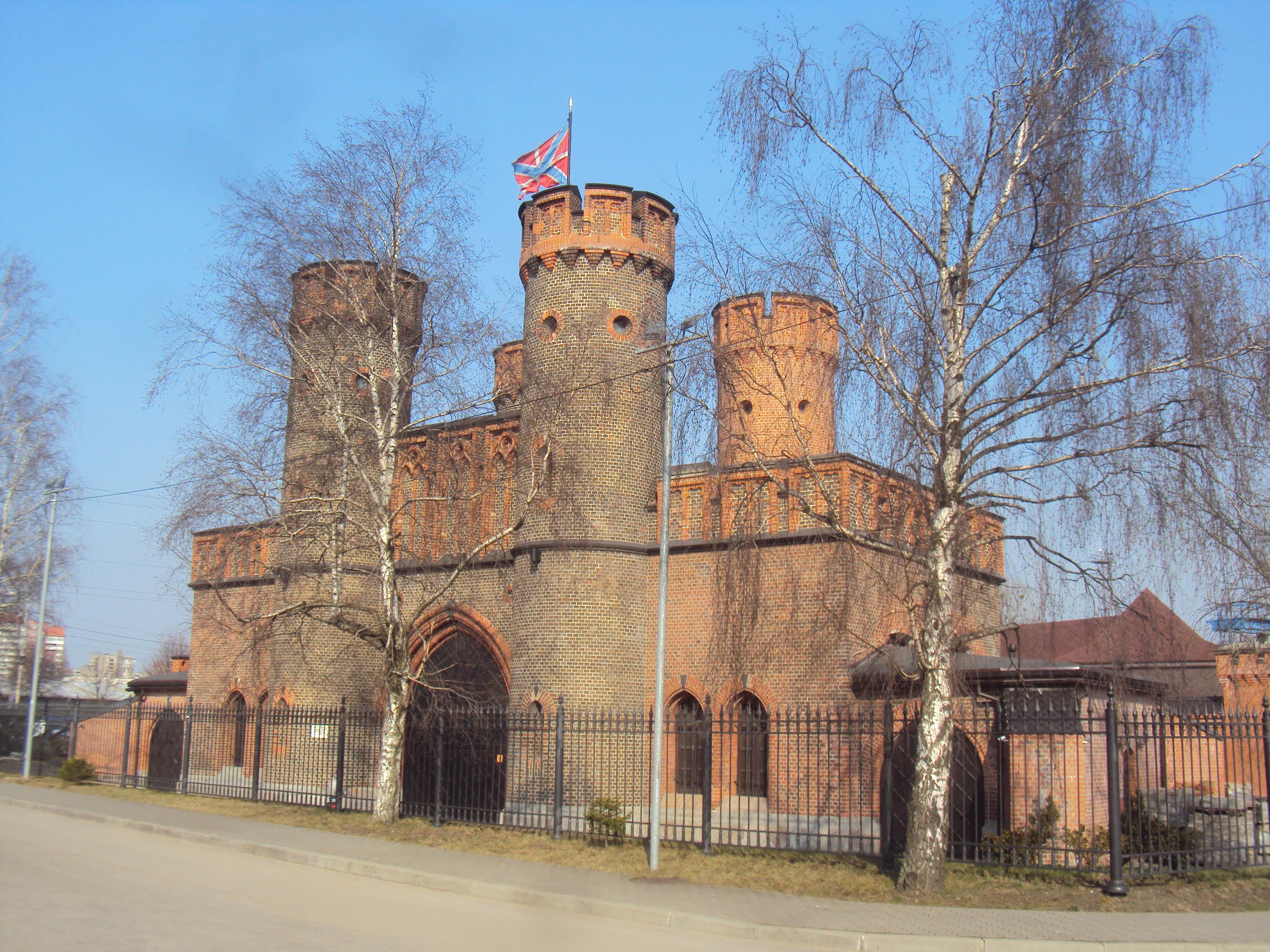 Friedrichsburg Gate City